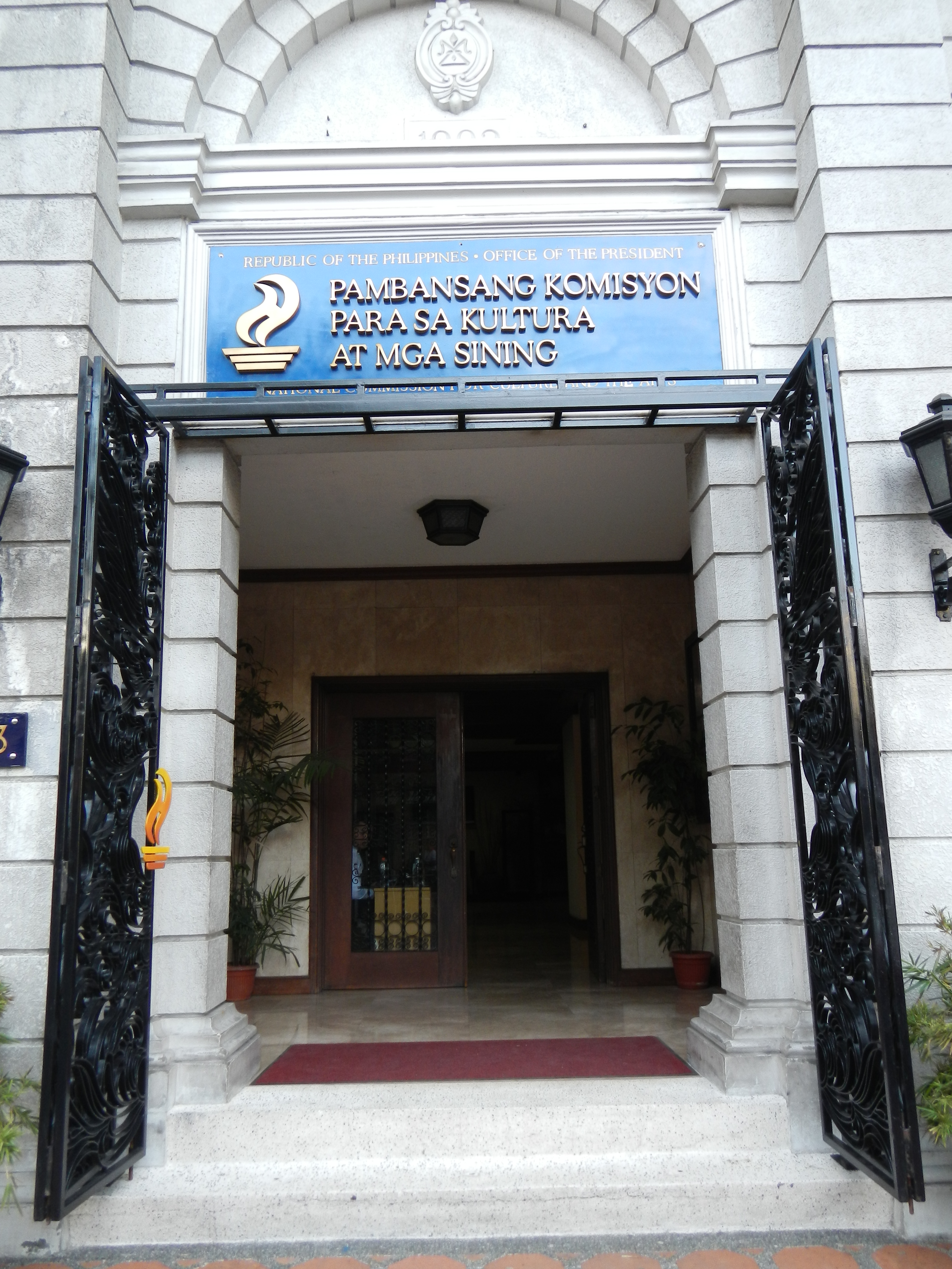 Upload Wizard photos of the - the facade and ground floor, the entrance and NCCA gallery and interior offices of the - National Commission for Culture and the Arts (Philippines)[1] Website in 633 NCCA Building, General Luna Street, Intramuros, Manila under Commission executives Felipe M. de Leon Jr., Chairman Emelita V. Almosara, Executive Director resigned, replaced by an OIC Adelina Suemith - and very near it is the Knights of Columbus Fraternal Association of the Philippines main building, Office, all in Intramuros, Manila, under its founder, Fr. George J. Willmann SJ.